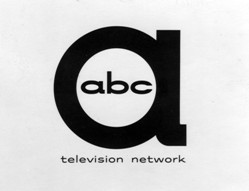 1957-1962 ABC Television Network logo